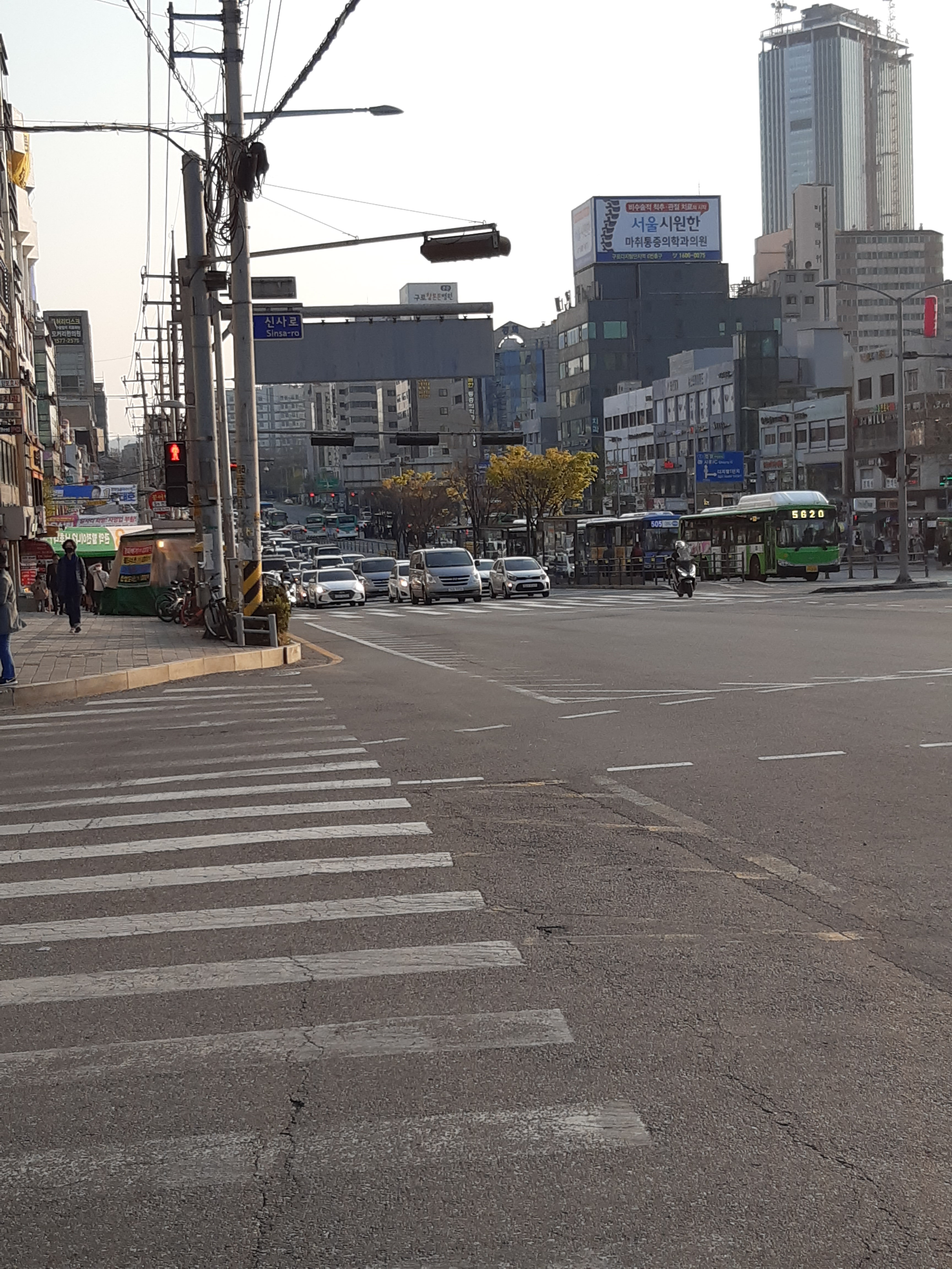 Seoul Siheung-daero, Sinsa-ro Cross road